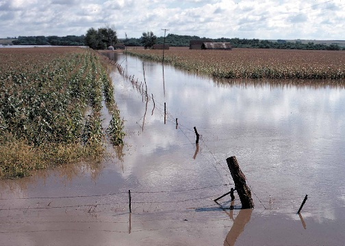 Flooded cropland in southwest Iowa